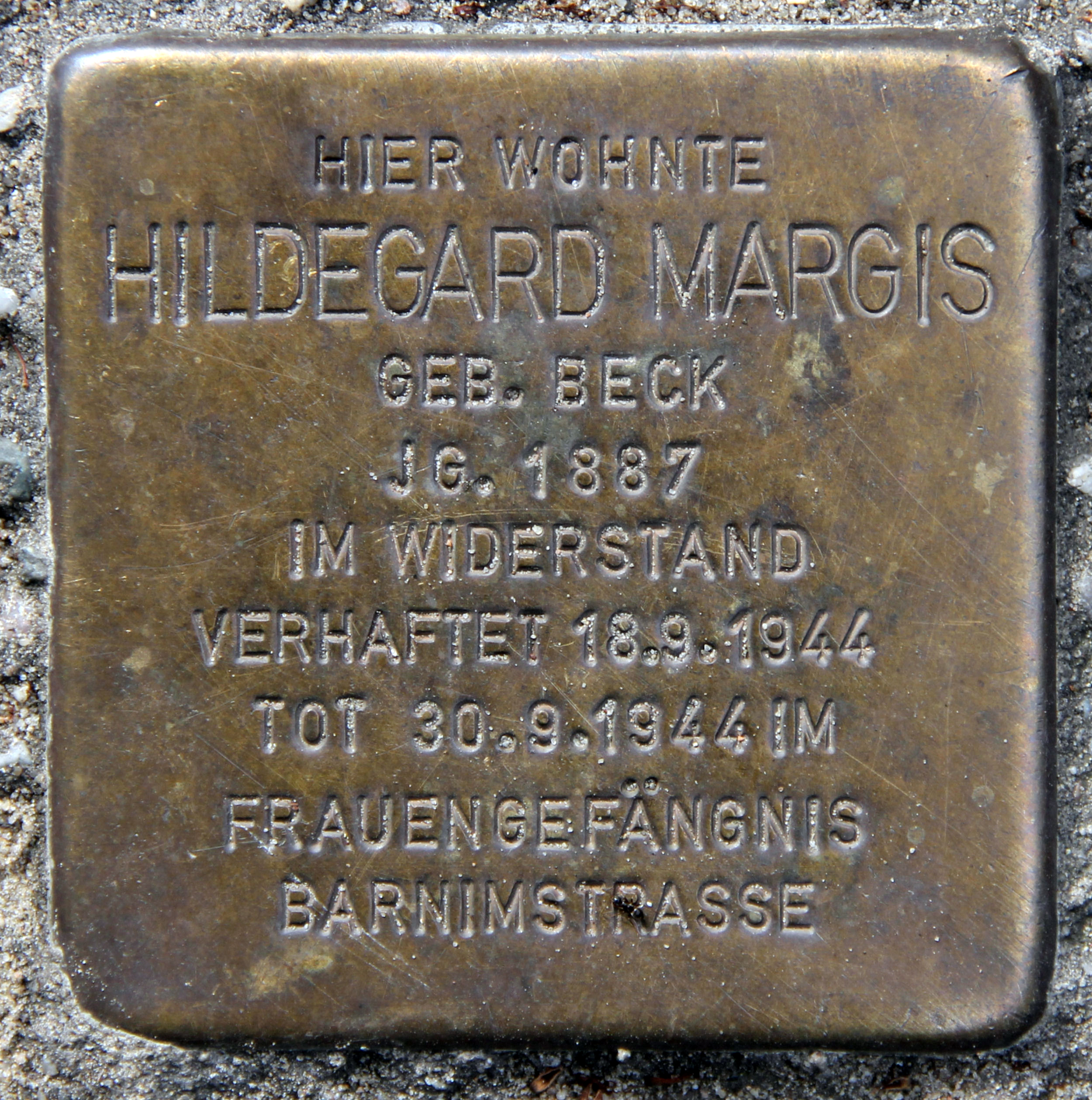 "Stolperstein" (stumbling block), Hildegard Margis, Lyckallee 28, Berlin-Westend, Germany